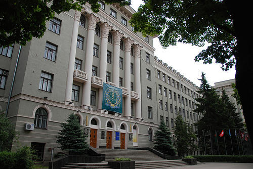 Kharkiv National Medical University